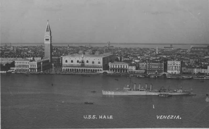 Wickes class destroyer USS Hale (DD-133), Venice, Italy 1919. Transferred to Britain as HMS Caldwell (I20) in 1940. Also served Canada as HMCS Caldwell.